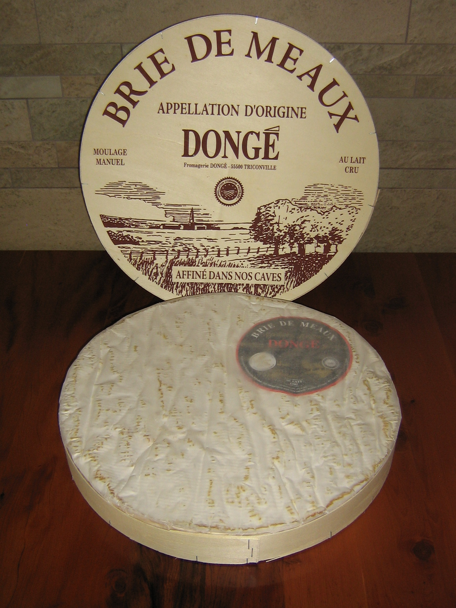 Opened box of a cheese wheel of Brie de Meaux